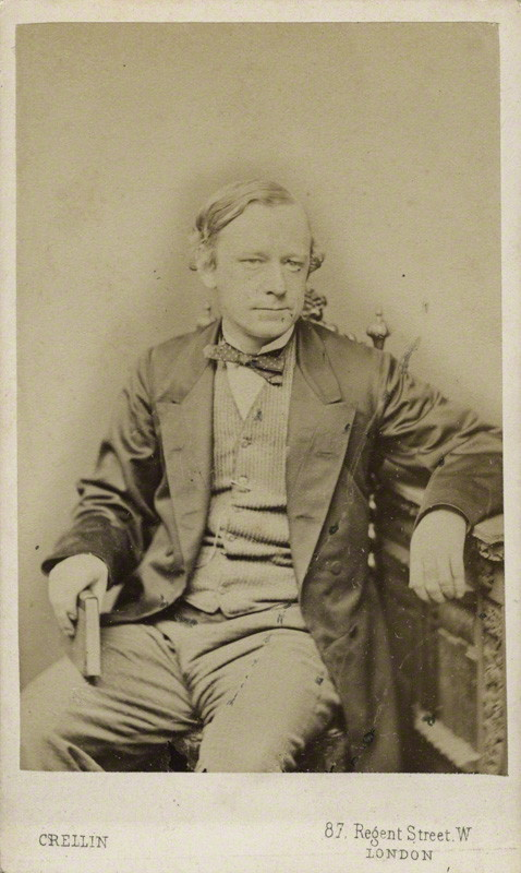 Sir John Robert Seeley, historian. Photograph by Philip Crellin Jr, albumen carte-de-visite, 1866